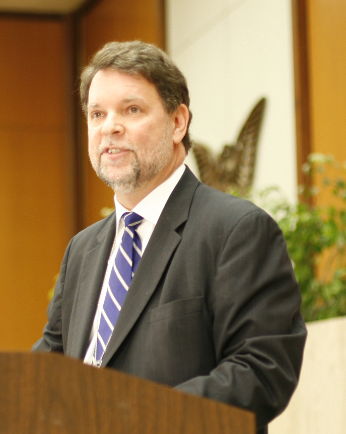 Special Representative for Global Partnerships Kris Balderston delivers remarks at the first-ever Global Impact Economy Forum at the U.S. Department of State in Washington, D.C., on April 26, 2012. [State Department photo by Ben Chang/ Public Domain]